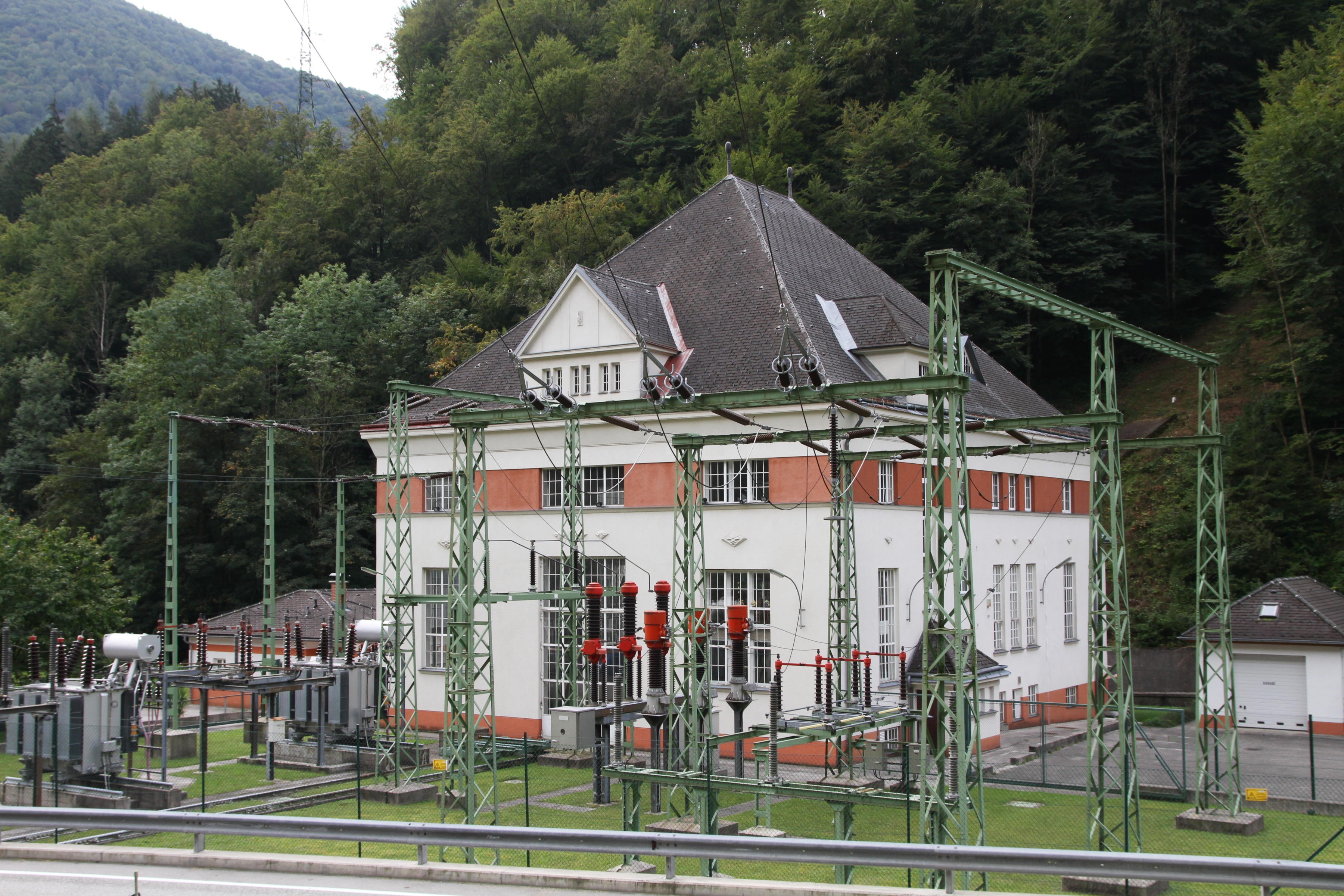 Gaming hydroelectric power station with outdoor switchgear